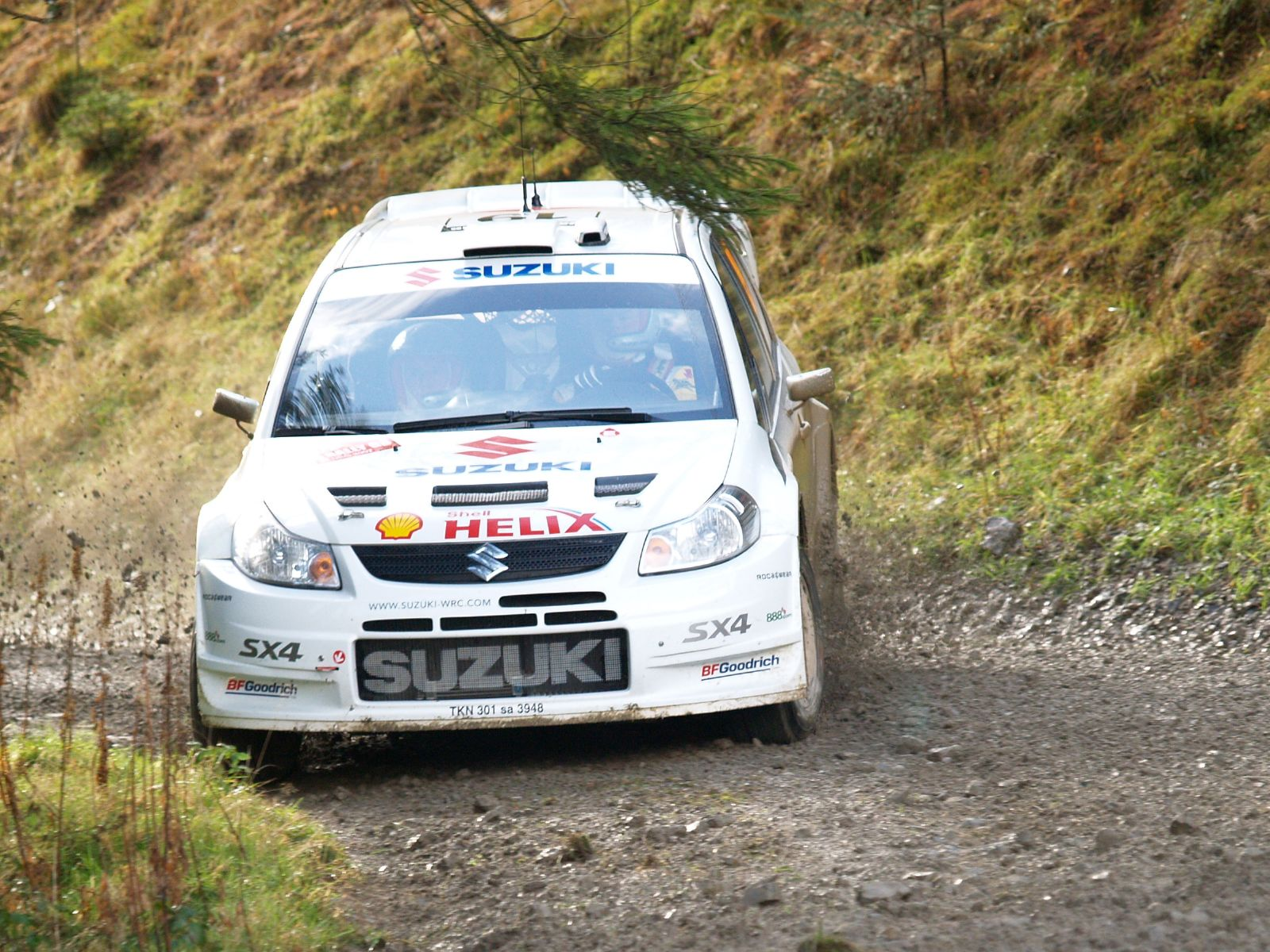 Sebastian Lindholm driving his Suzuki SX4 WRC for the first time on gravel during 2007 Wales Rally GB.